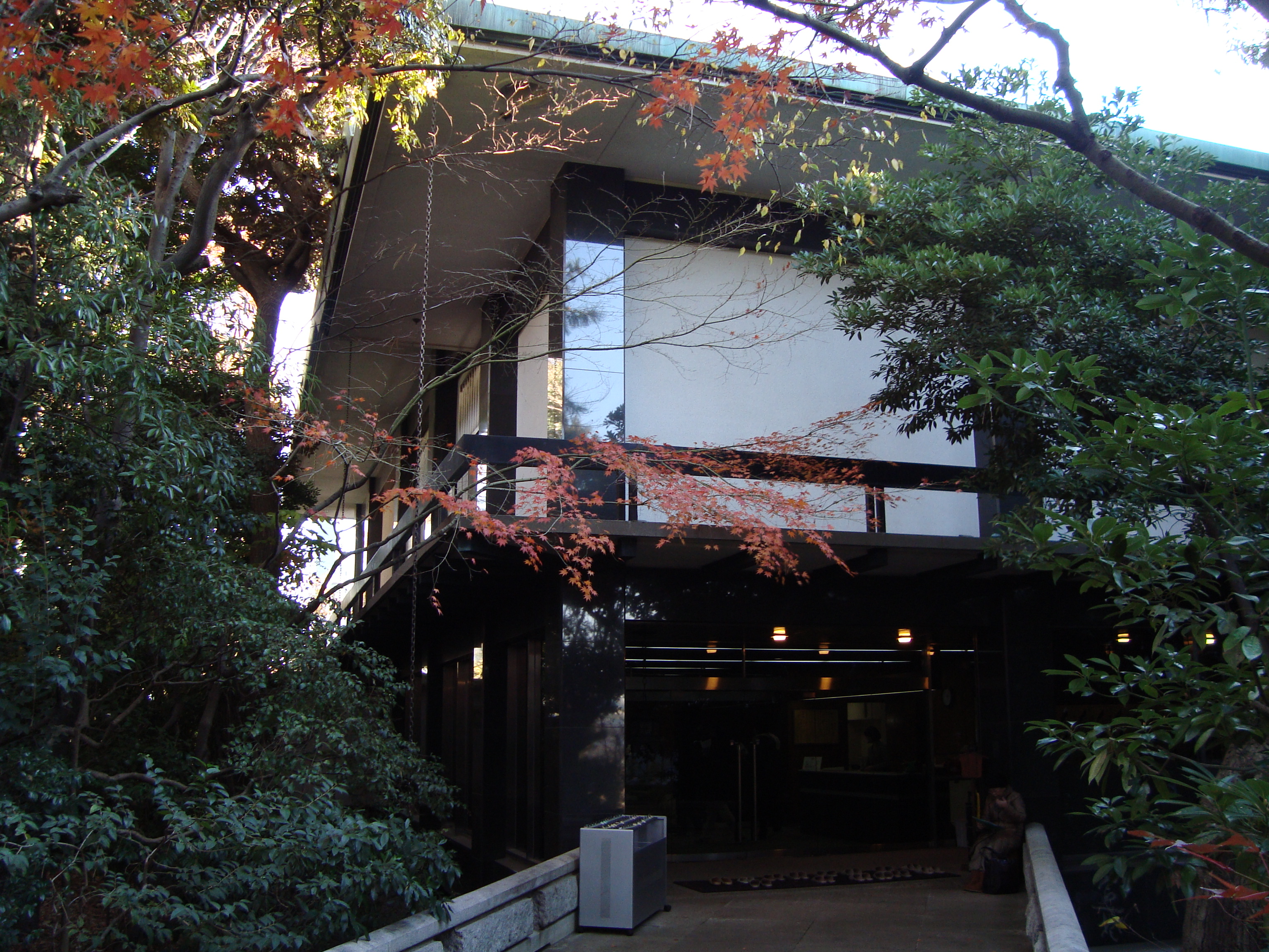 Entrance of the Hatekayama Memorial Museum, Minato-ku, Tokyo